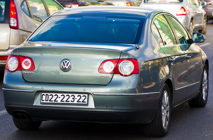 An example of an Israeli diplomatic corps registration plate